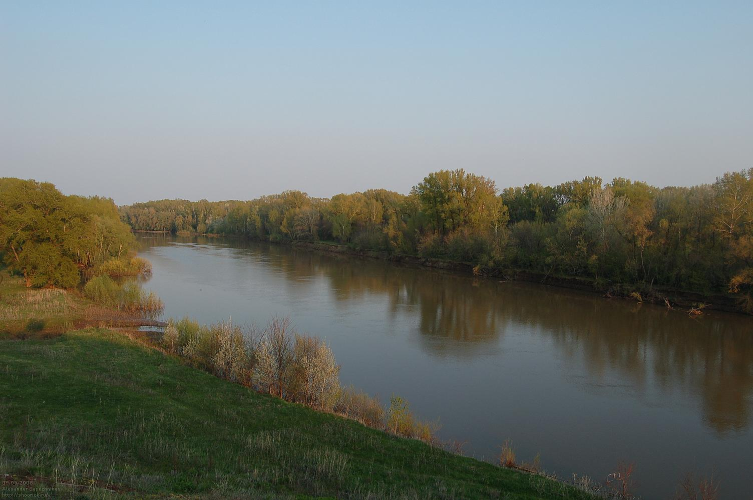 Sakmara River near settlement Saraktash, Russia.